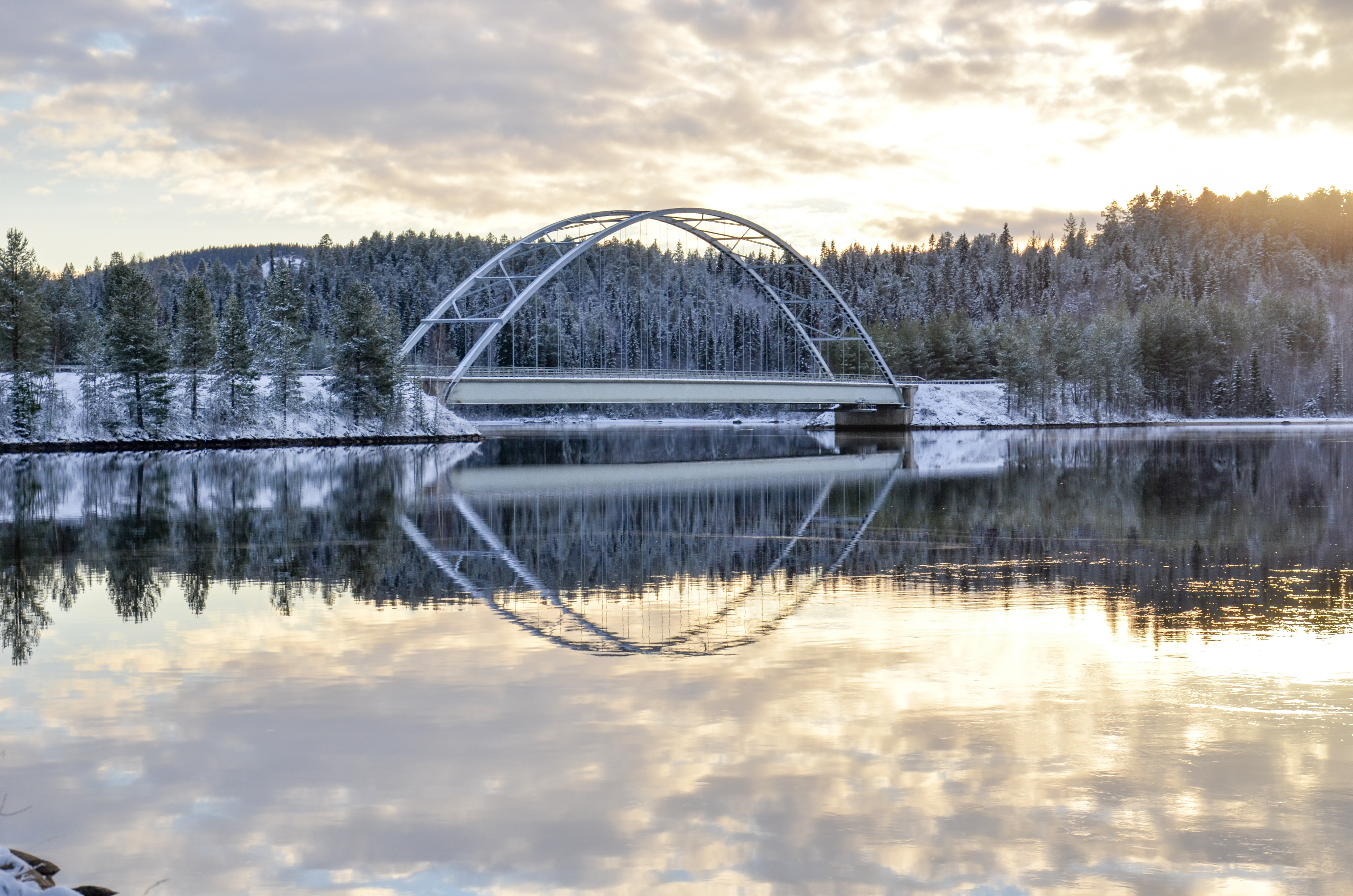 Vägbron över Luleälv och Porsidammen vid Vuollerim. Bilden tagen från Porsudden på älvens norra sida söderut